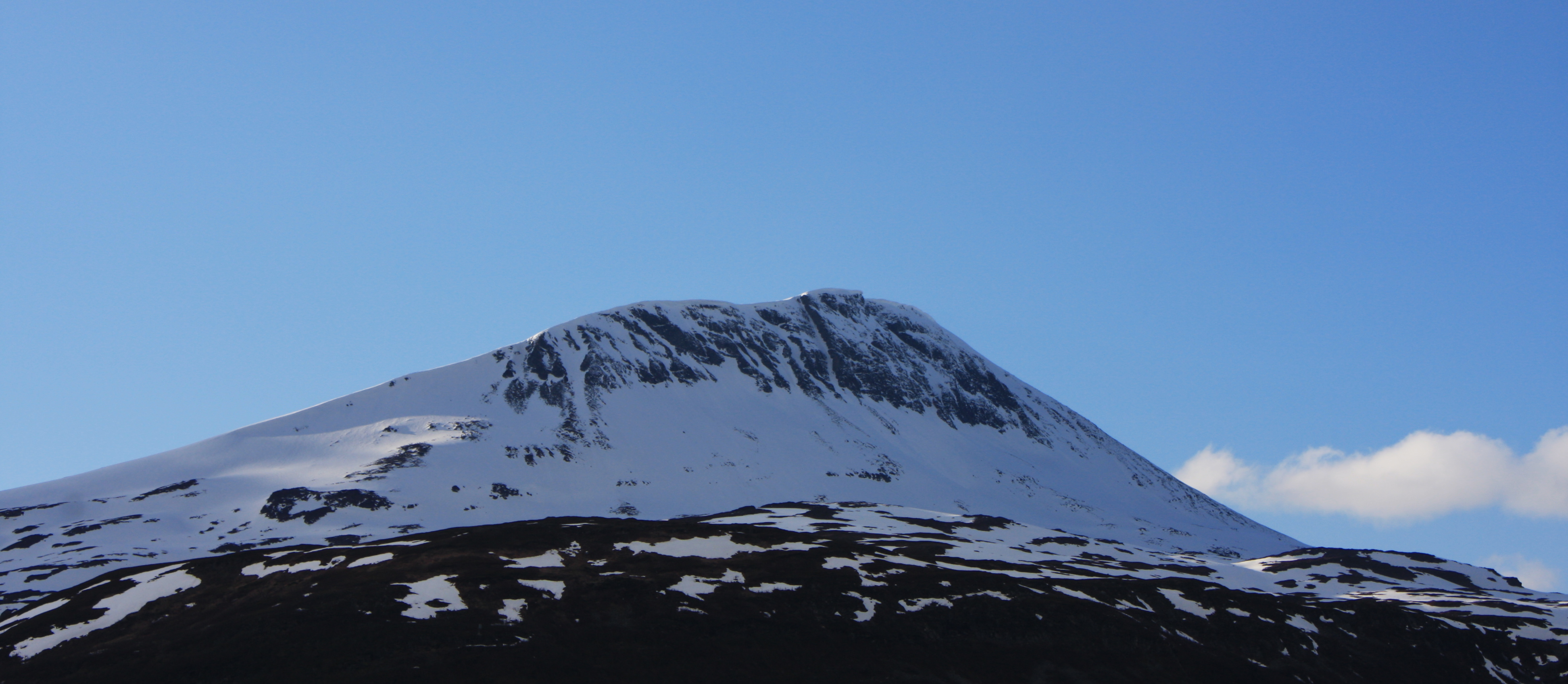 Tromsdalstinden Seen from Ramfjorden.